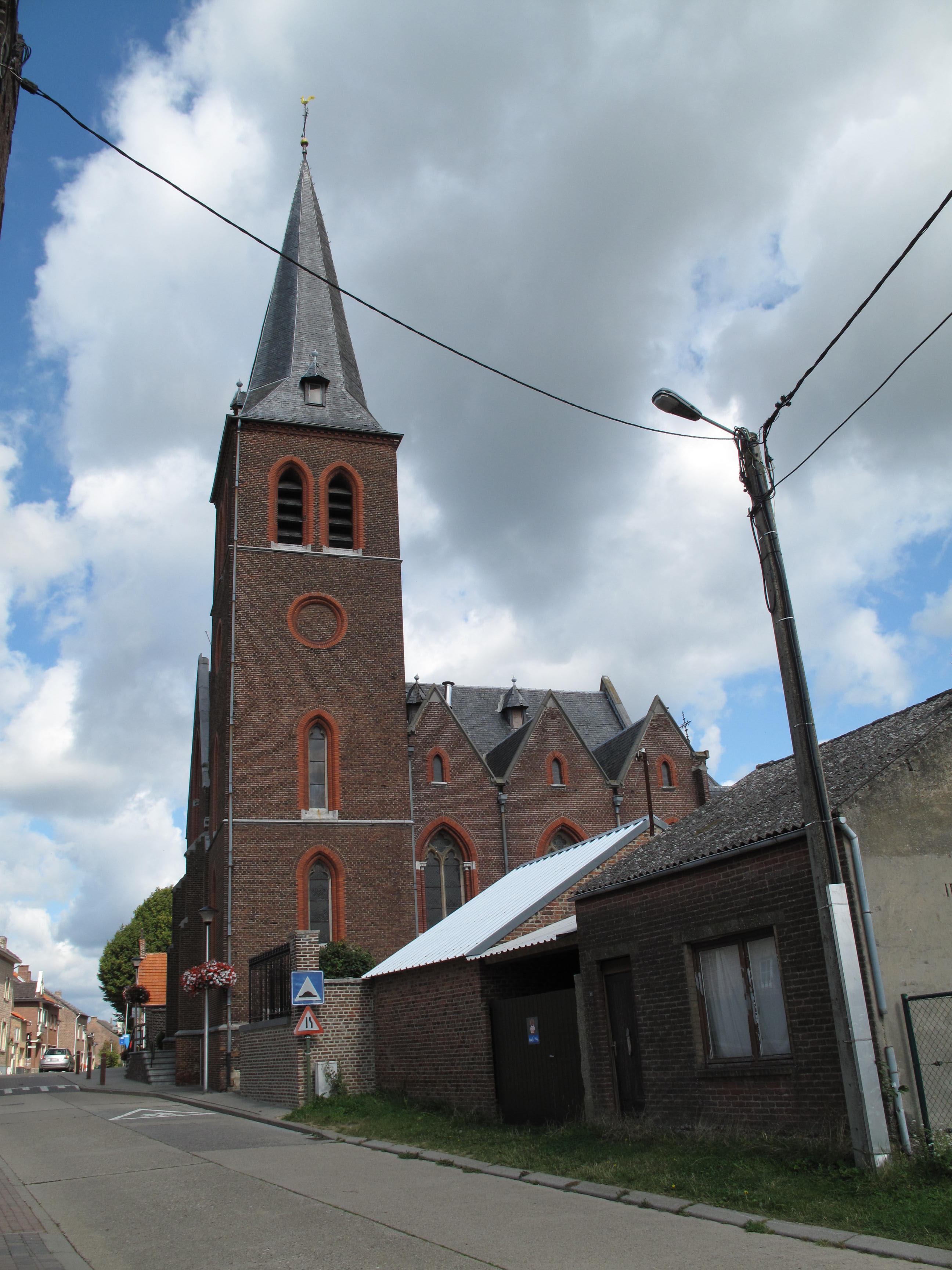 Martenslinde, church: Sint Martinuskerk